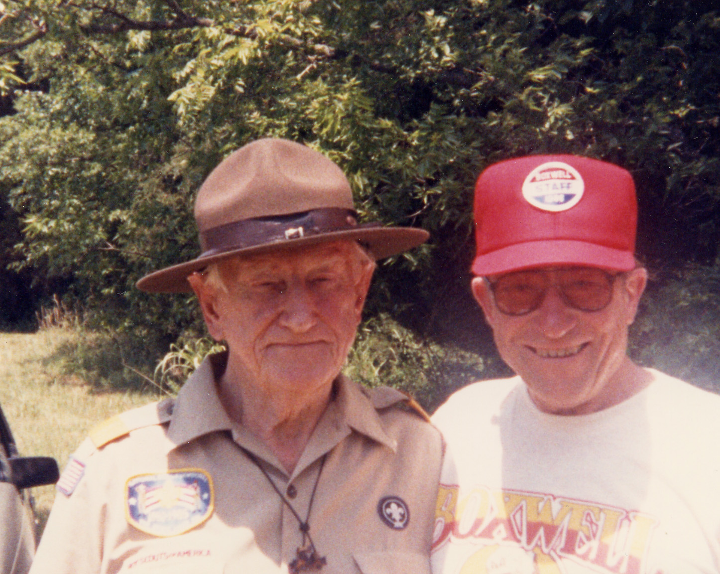 William "Green Bar Bill" Hillcourt (L) and Claus "Dutch" Mann (R). In 1986, Scouting's Green Bar Bill came and spent the summer at Boxwell Scout Reservation, Camp Craig. Green Bar Bill was responsible for several editions of the Boy Scout Handbook. Here, Green Bar Bill is pictured with longtime Craig Handicraft Director Dutch Mann.